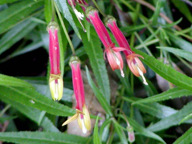 Photo of Lobelia laxiflora at the San Francisco Botanical Garden